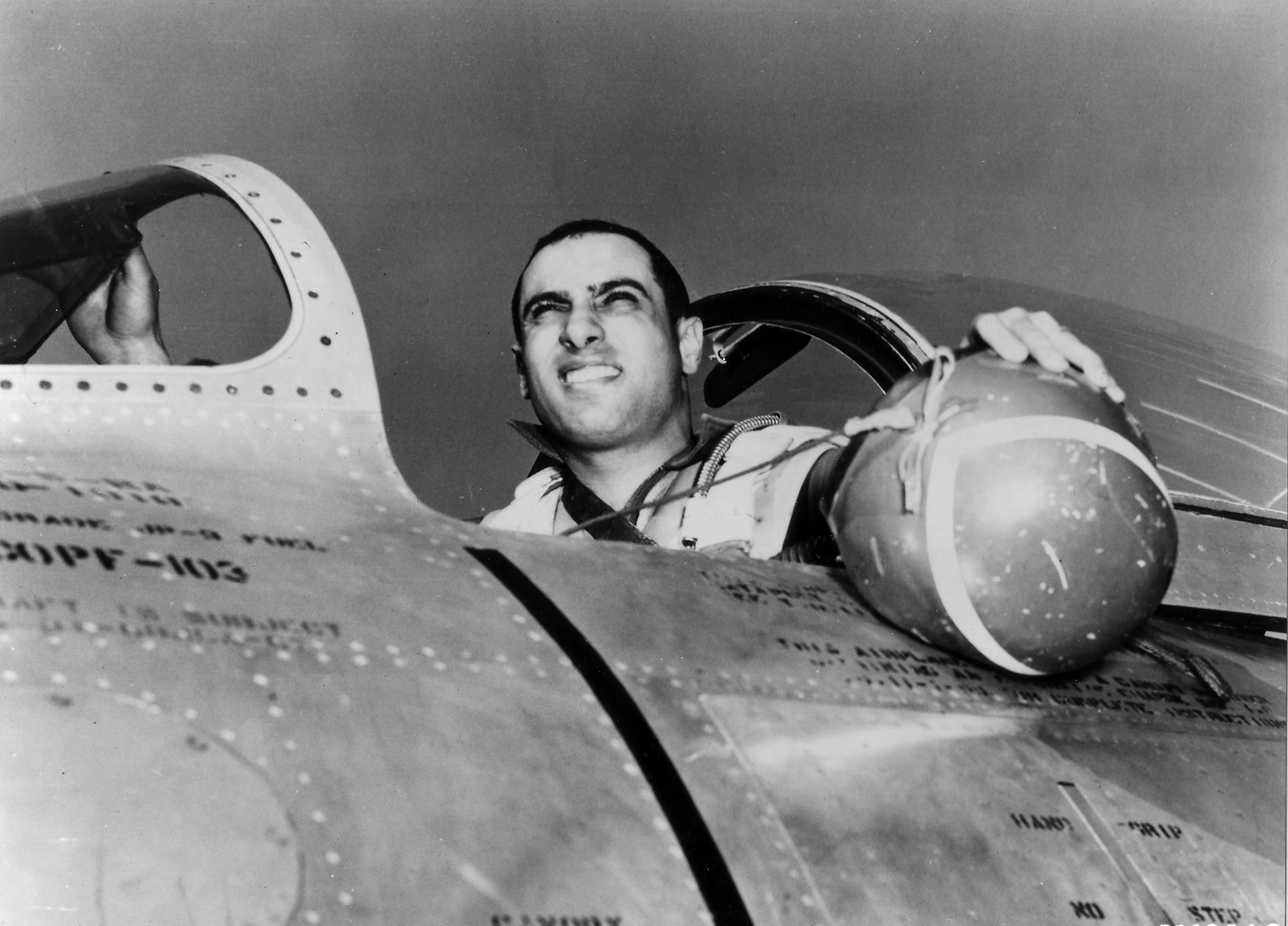 James Jabara sitting in the cockpit of his USAF F-86 Sabre fighter jet aircraft, circa 1951.